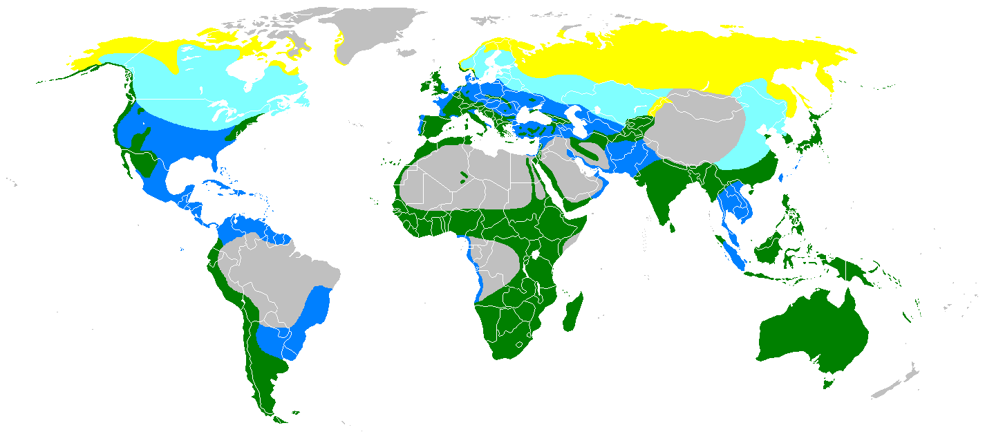 Range map for Falco peregrinus (including F. (p.) pelegrinoides, the Barbary falcon) Breeding summer visitor Breeding resident Winter visitor Passage visitor